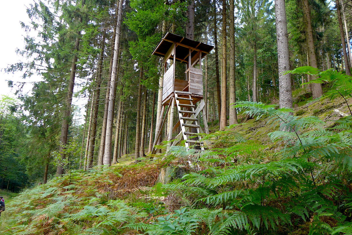 "Blade track" - the tourist marked route around the German city of Solingen (Northern Rhine-Westphalia). Third stage: Around the fortress of Schloss Burg and through the valley of a stream Esch. 8,1 km.